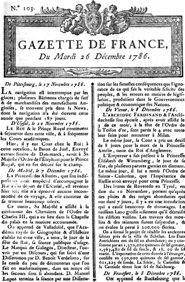 First page of La Gazette de France (1631-1915) by Théophraste Renaudot (1586-1653).